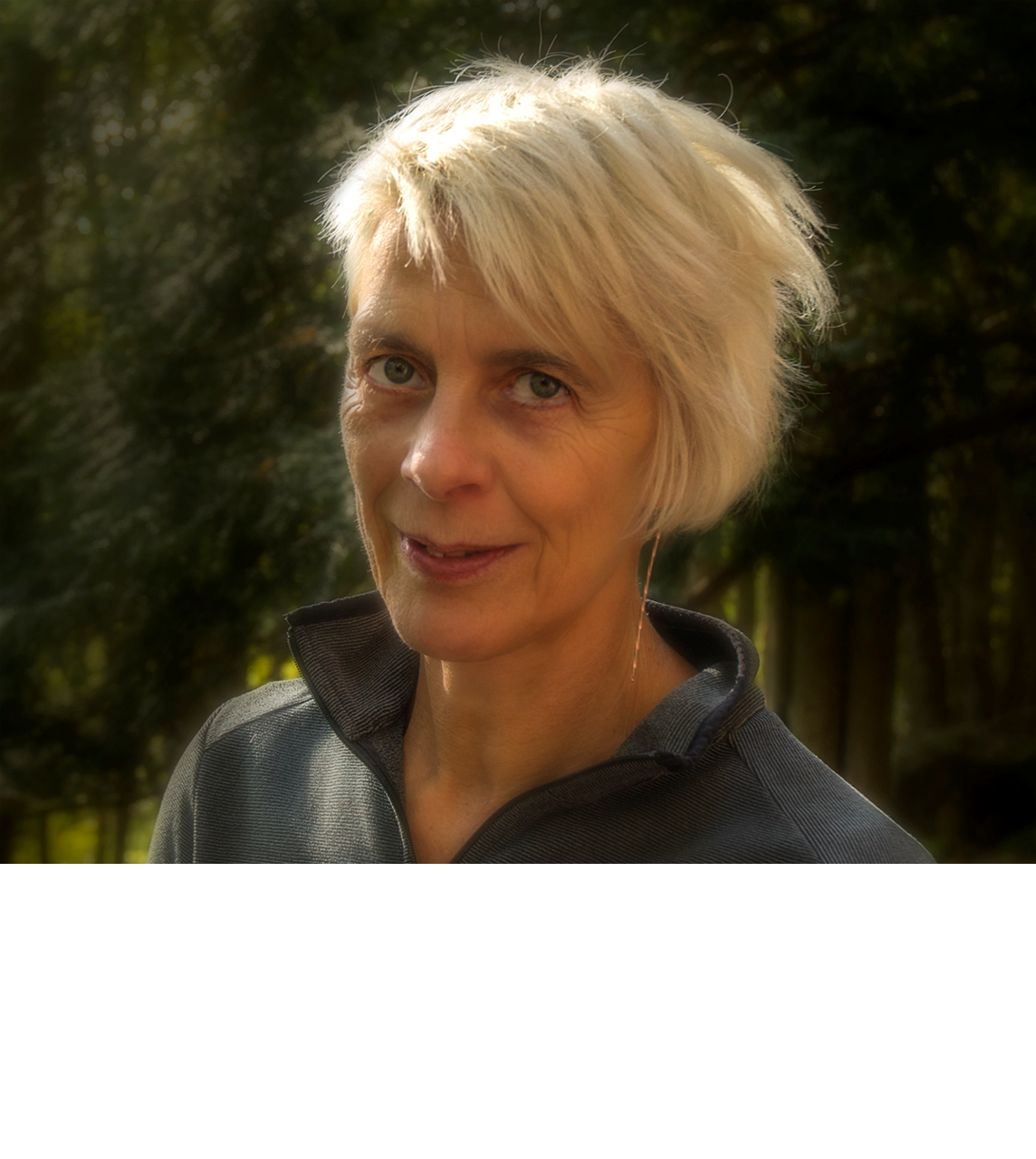 The german Author and climber Irmgard Braun